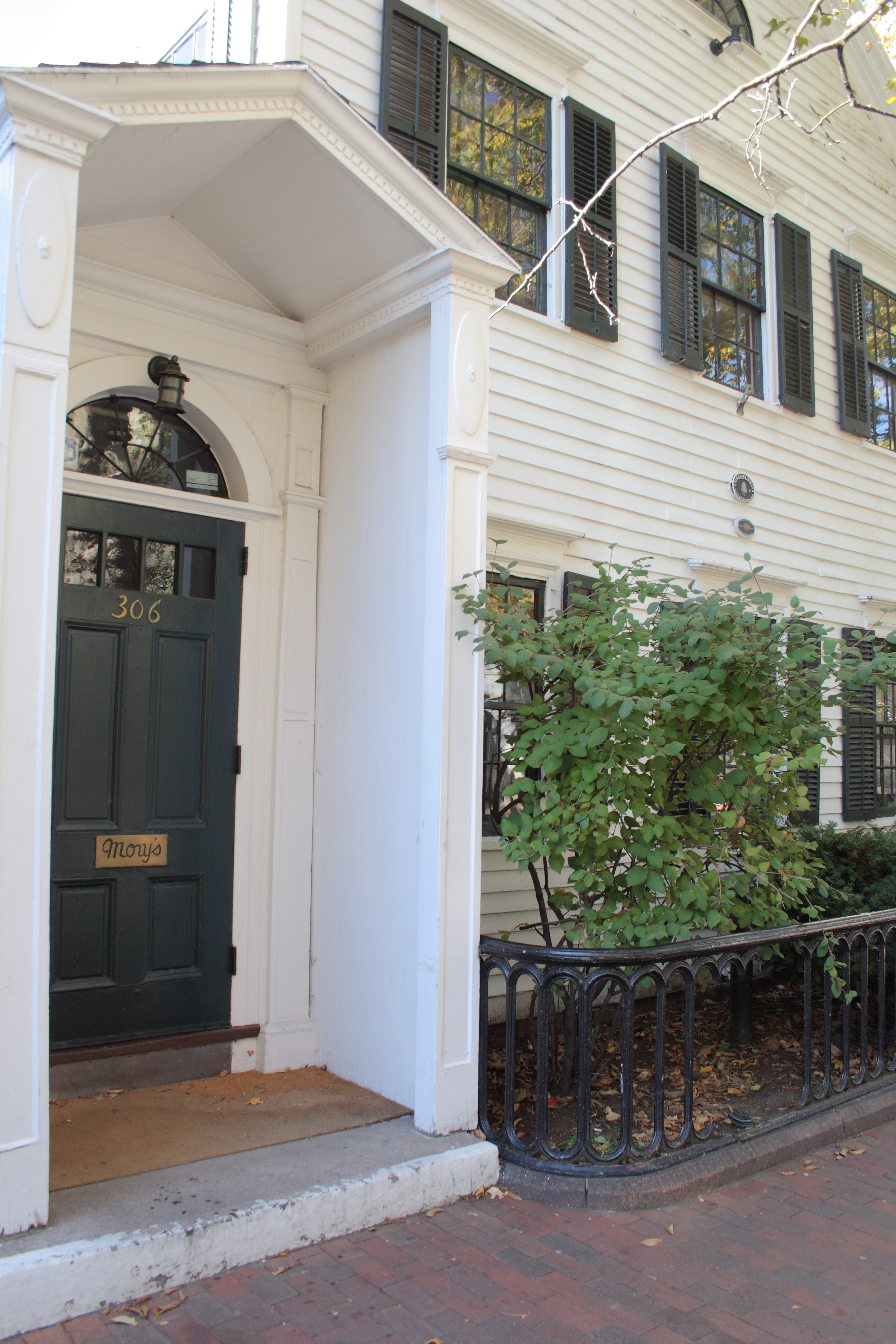 The entrance to Mory's, a private club at 306 York Street in New Haven, Connecticut, adjacent to parts of the Yale University campus. It is a Registered Historic Place.